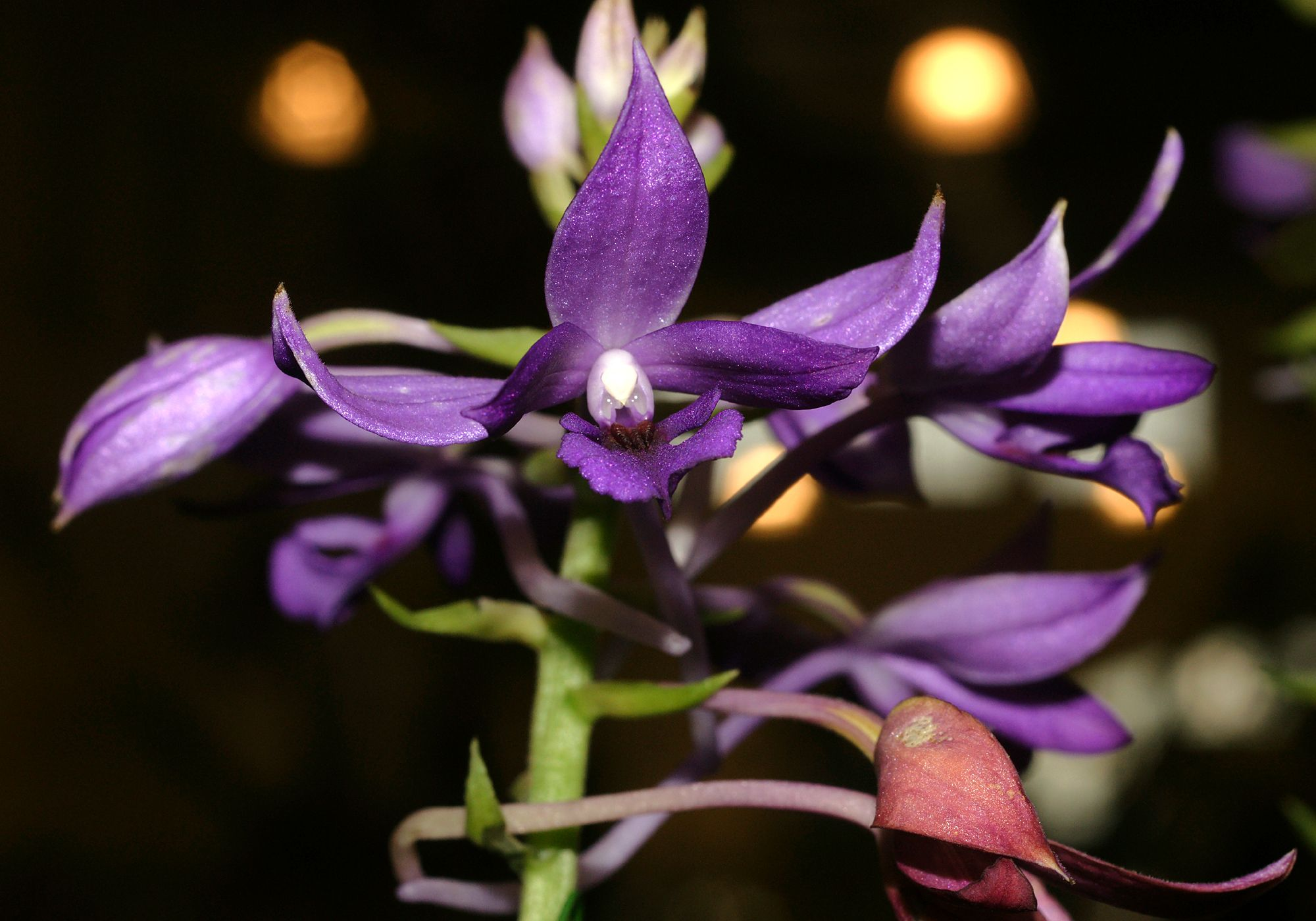 Calanthe sylvatica